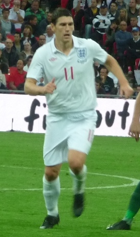 Gareth Barry